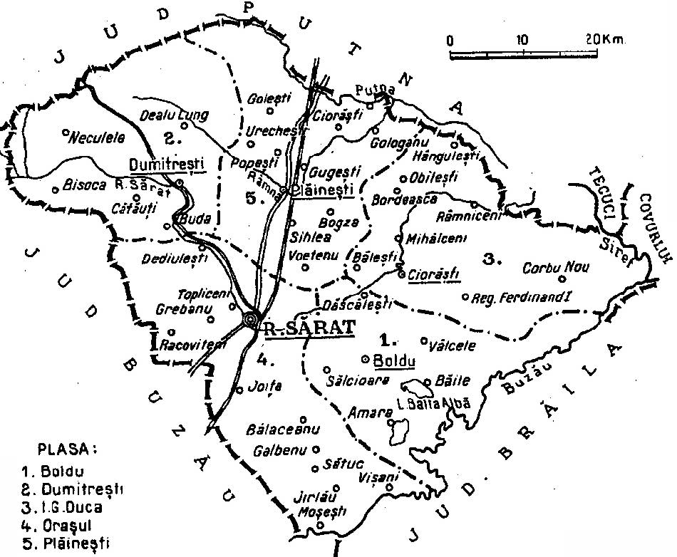 Map of Râmnicu Sărat interwar county, Kingdom of Romania (1938).